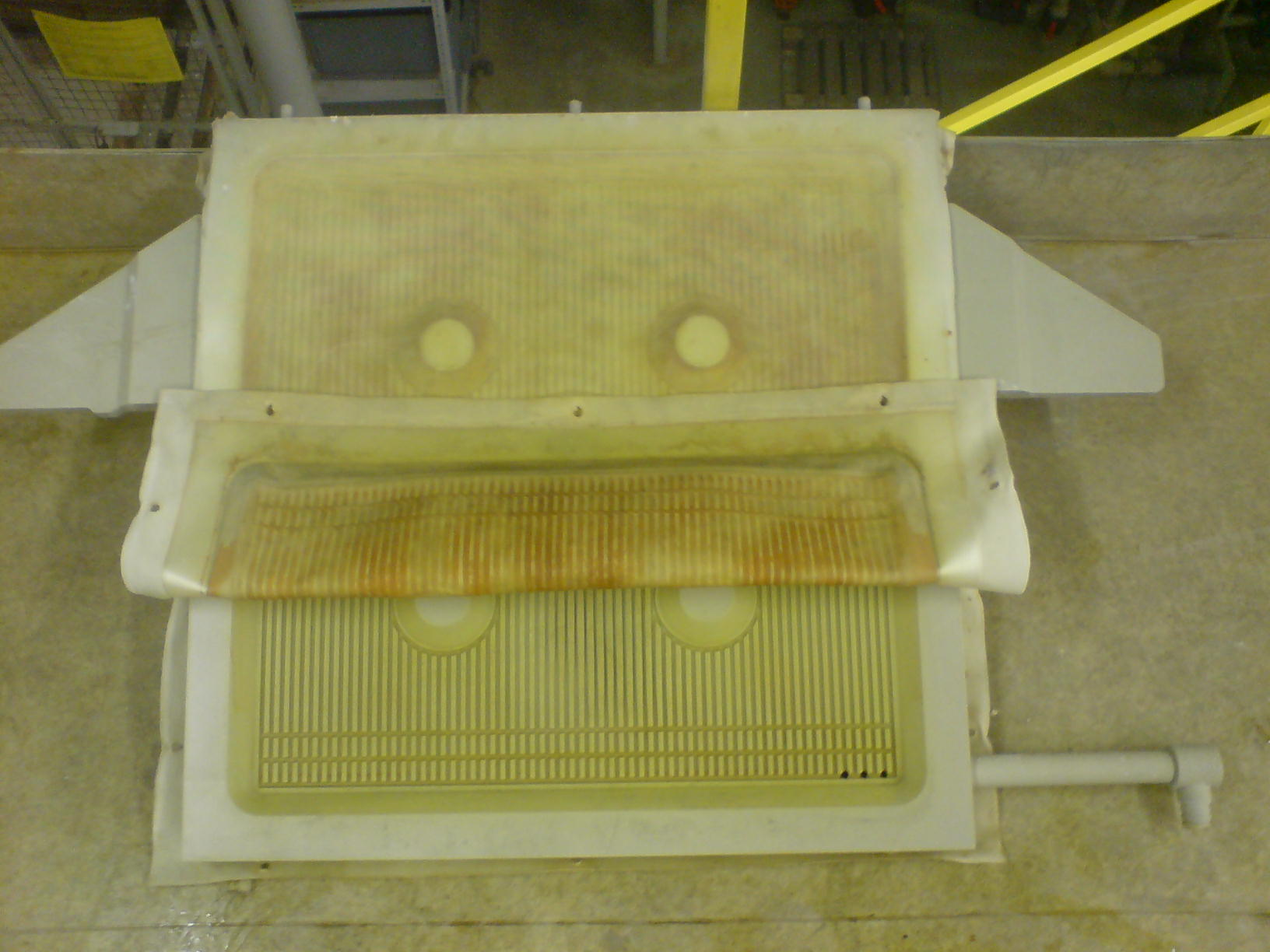 Filtrating desk of filter press with drainage partially shown.